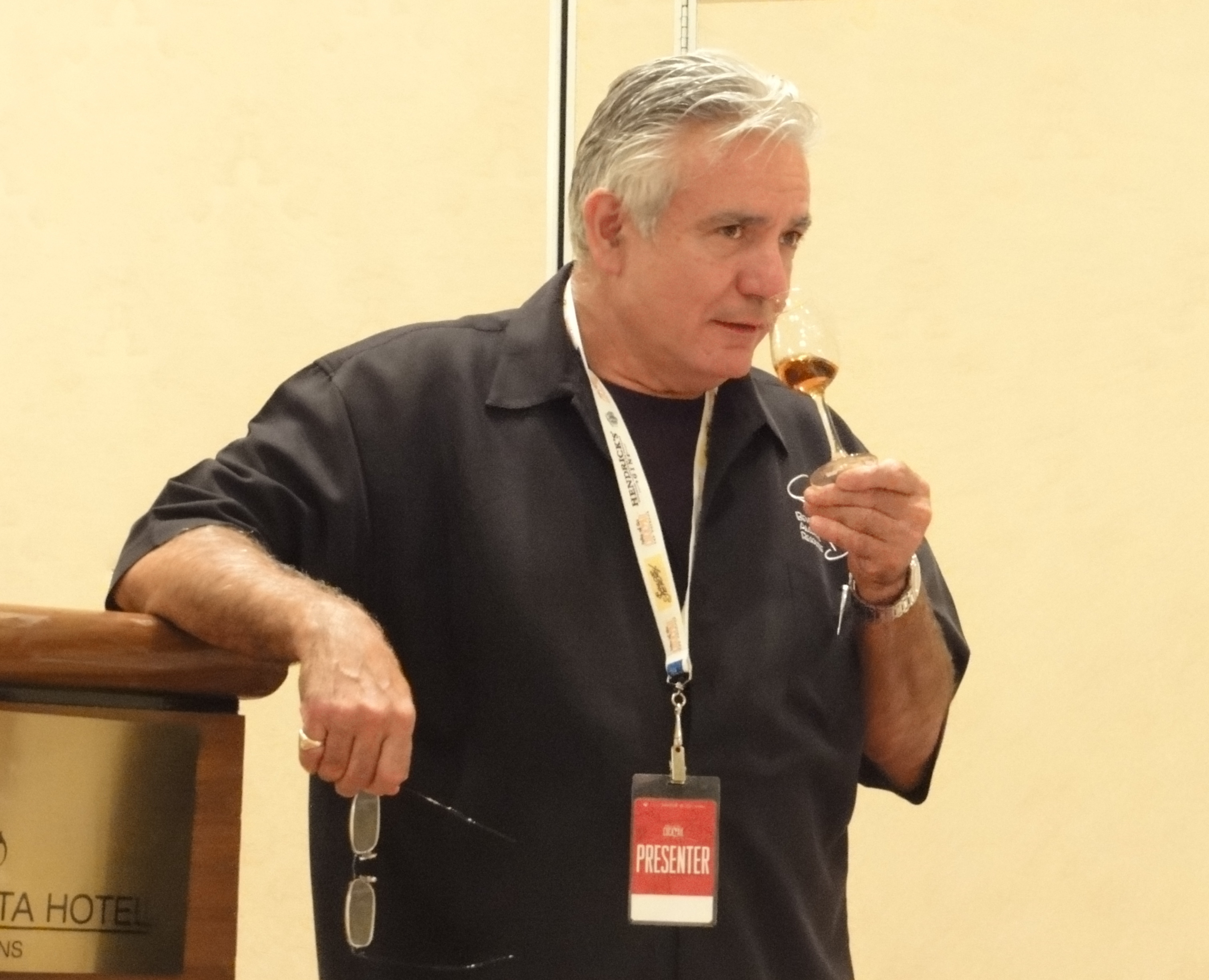 Dale DeGroff savors the aroma of a fine Armagnac. Tales of the Cocktail, New Orleans